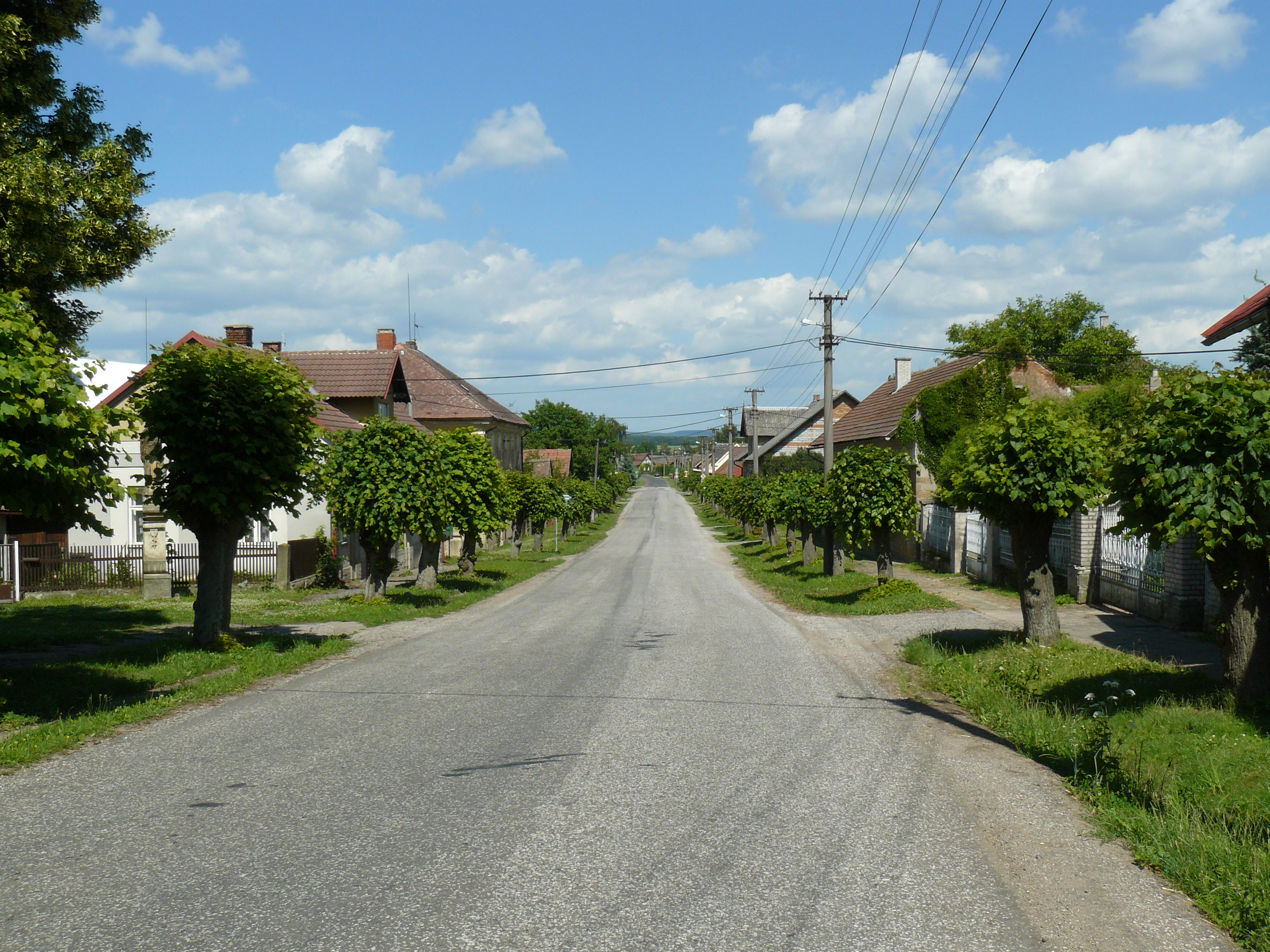 Žeretice - village in Czech Republic